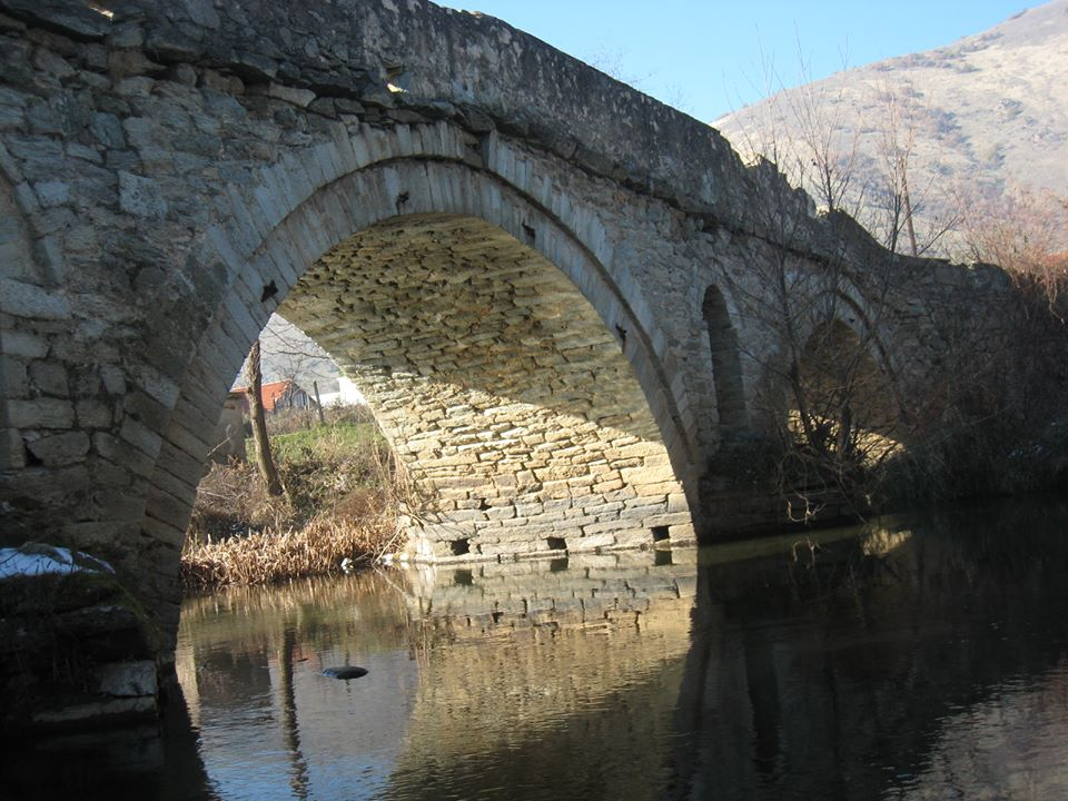 според некои мостот е изграден во отоманскиот, а според некои многу порано - во римскиот период